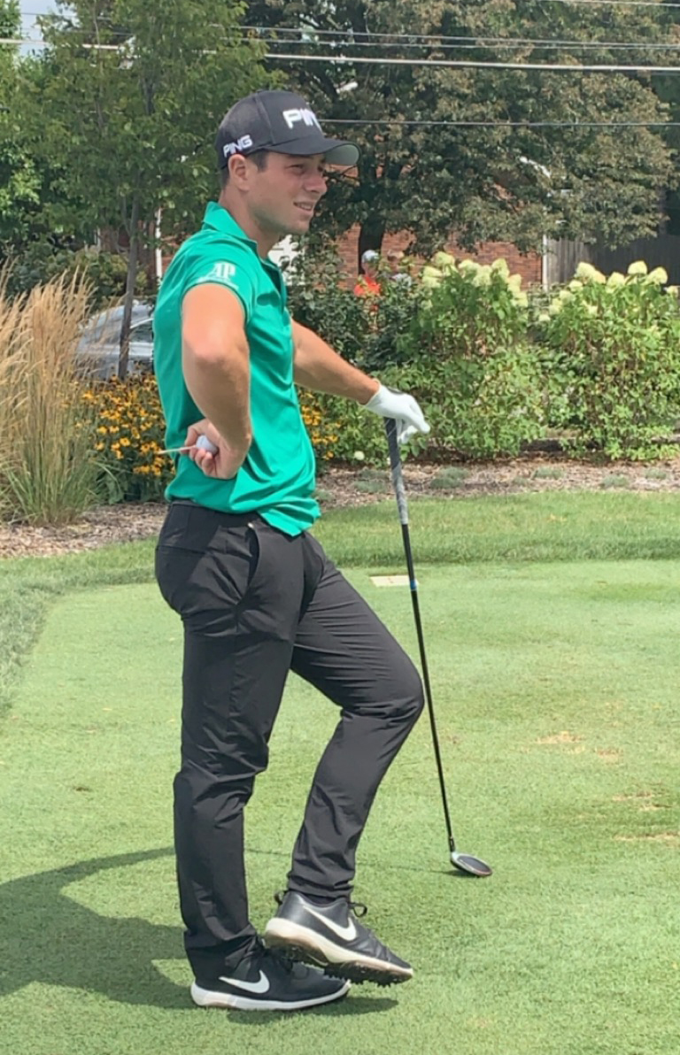 Viktor Hovland at the 2019 Korn Ferry Tour Finals. Taken at the OSU Scarlett course.